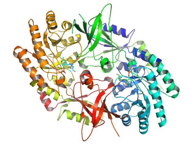 Crystal structure of pdb 1D7K rendered with PyMol (DeLano Scientific Freeware)